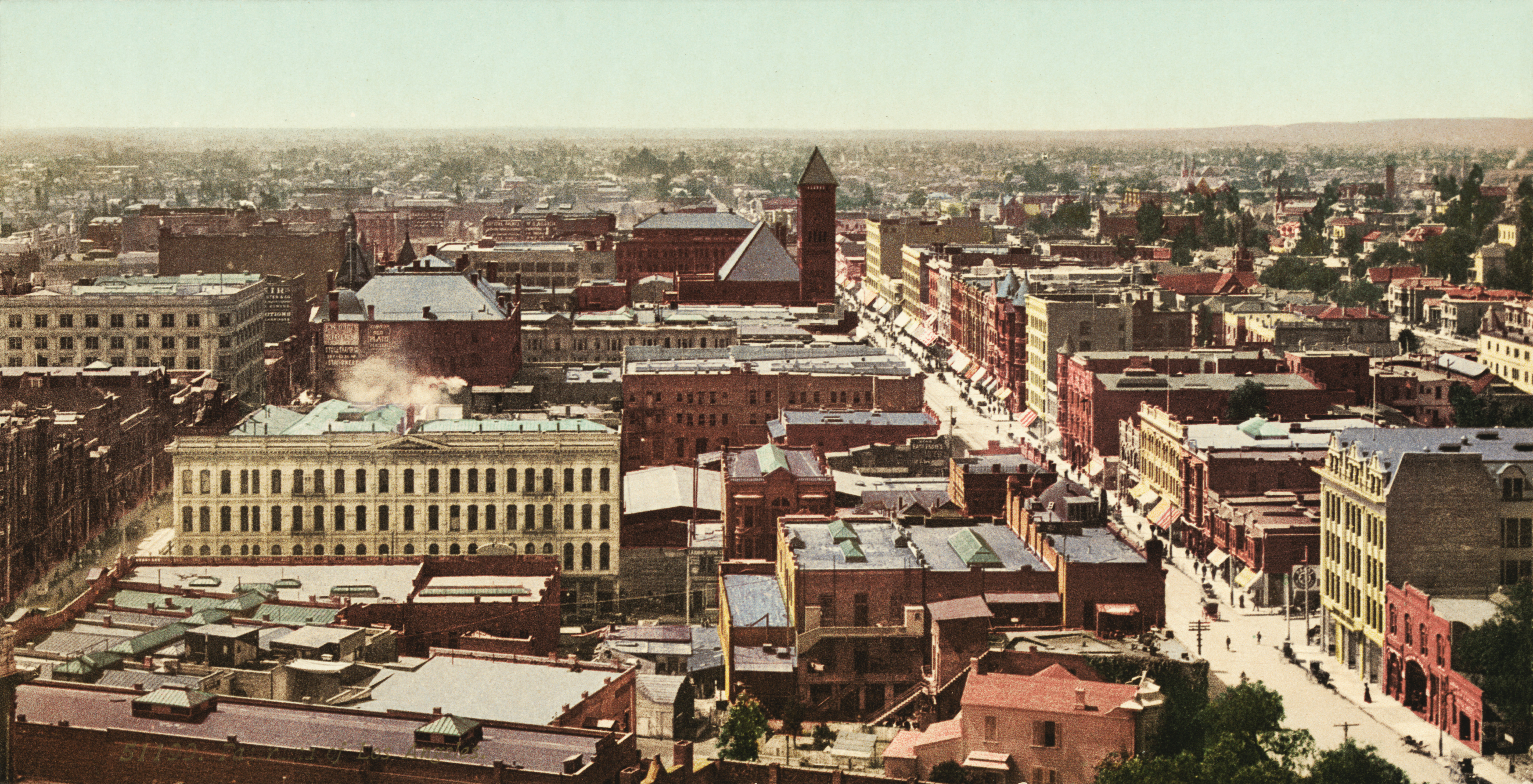 Panorama of Los Angeles. Detroit Publishing Co. no. "51199"